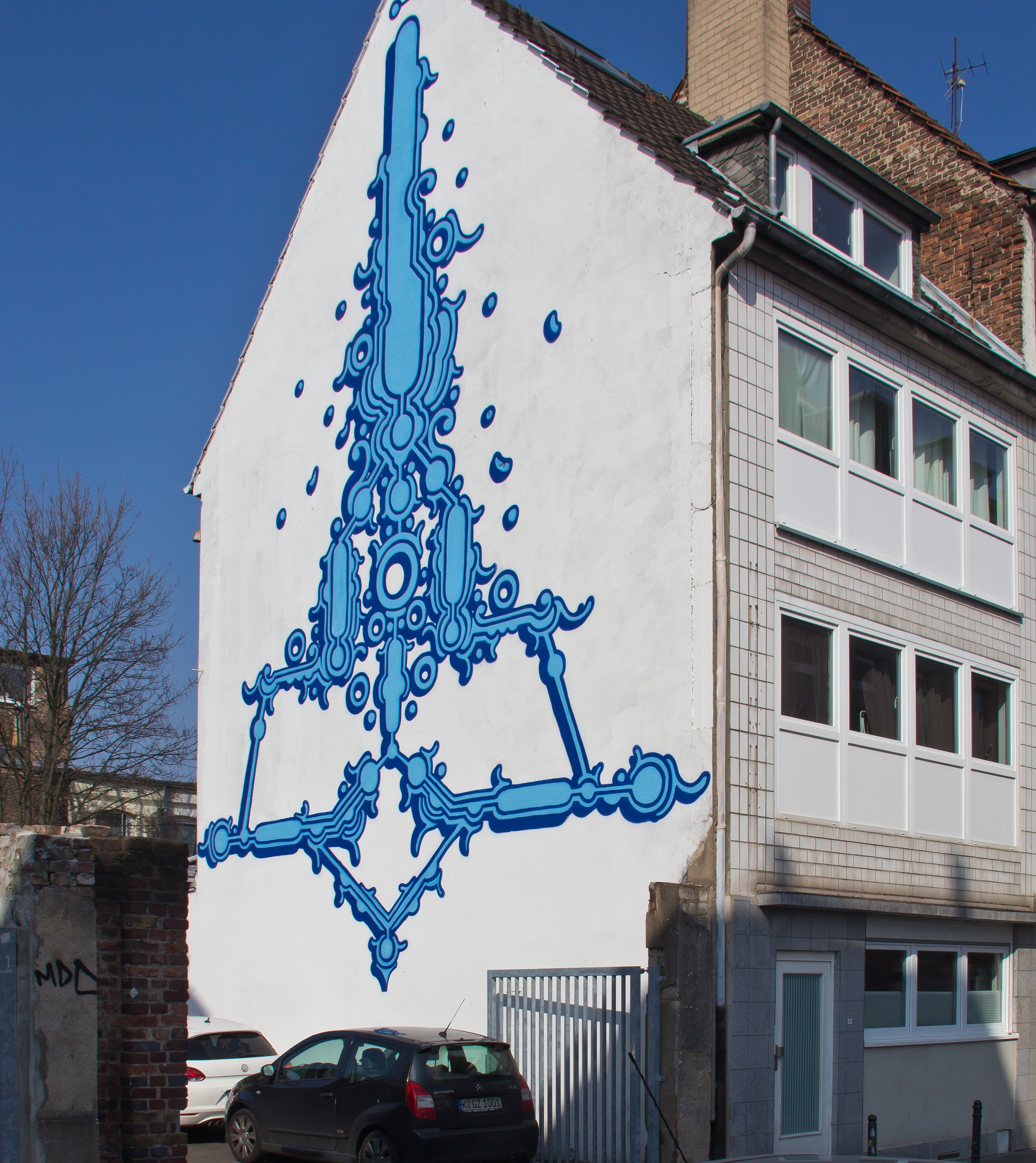 Radiant blue water ribbon on a house in Cologne-Ehrenfeld